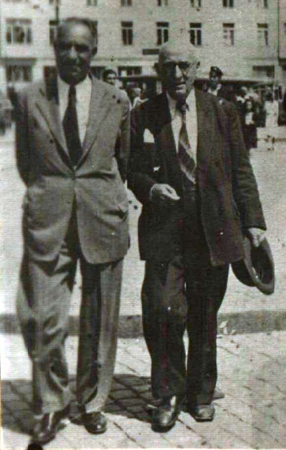 Elin Pelin and Piligrim